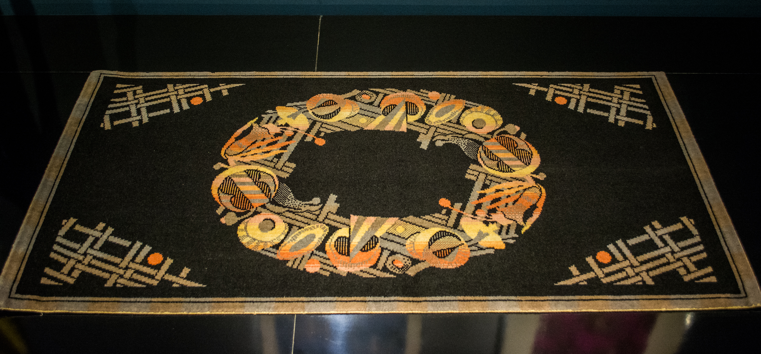 A "La Salle" Wilton throw rug, on display as part of the "Jazz Age" exhibit at the Cleveland Museum of Art in Cleveland, Ohio, in the United States. This rug was manufactured by the Bigelow-Hartford Carpet Company, an American firm active from 1914 to 1929. This wool rug, which is 27 by 54 inches in size, was likely manufactured in either Thompsonville, Connecticut, or Clinton, Massachusetts. It dates to 1928. "La Salle" was the company's marketing name for this rug design, which is a flattened and abstract version of a traditional French floral wreath with a basket weaving pattern in the corners. It is called a Wilton rug because the texture and weave of the rug's fabric mimicked that of rugs made in Wilton, England -- a prominent weaving center in the United Kingdom. CMAJazzAge